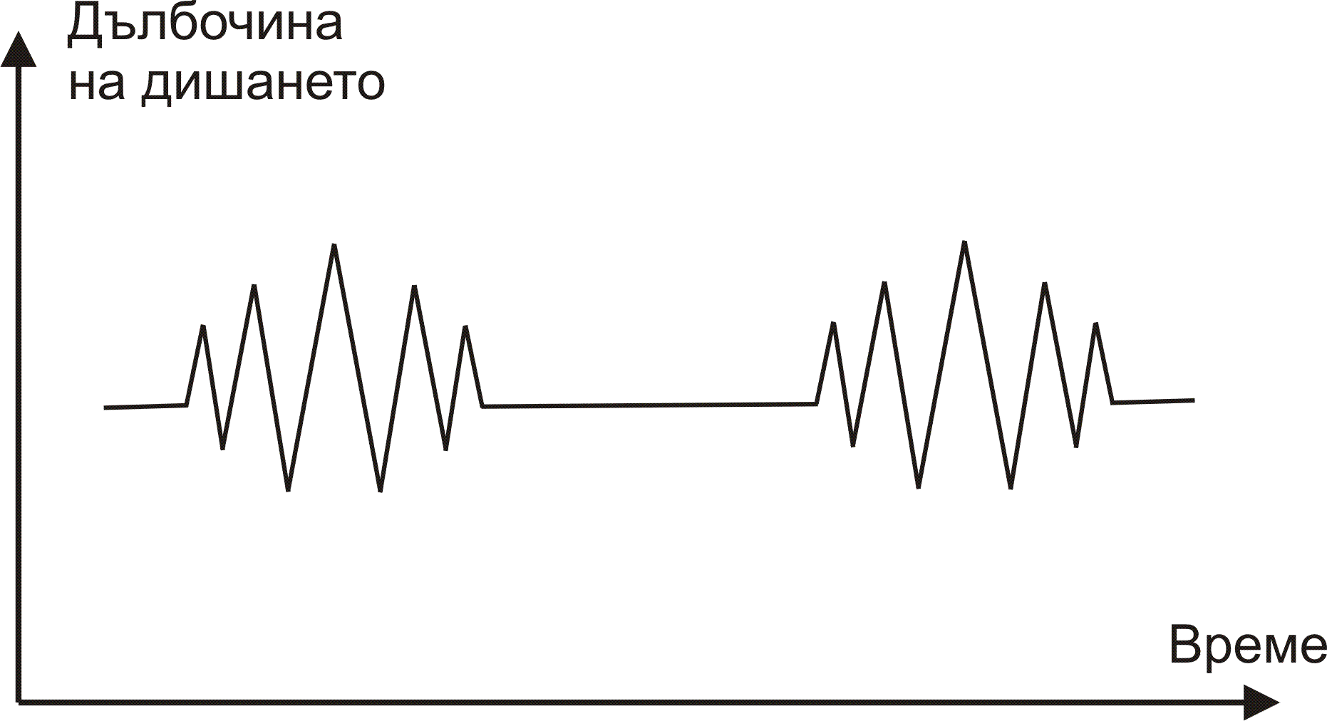 Cheyne-Stokes respiration graphic